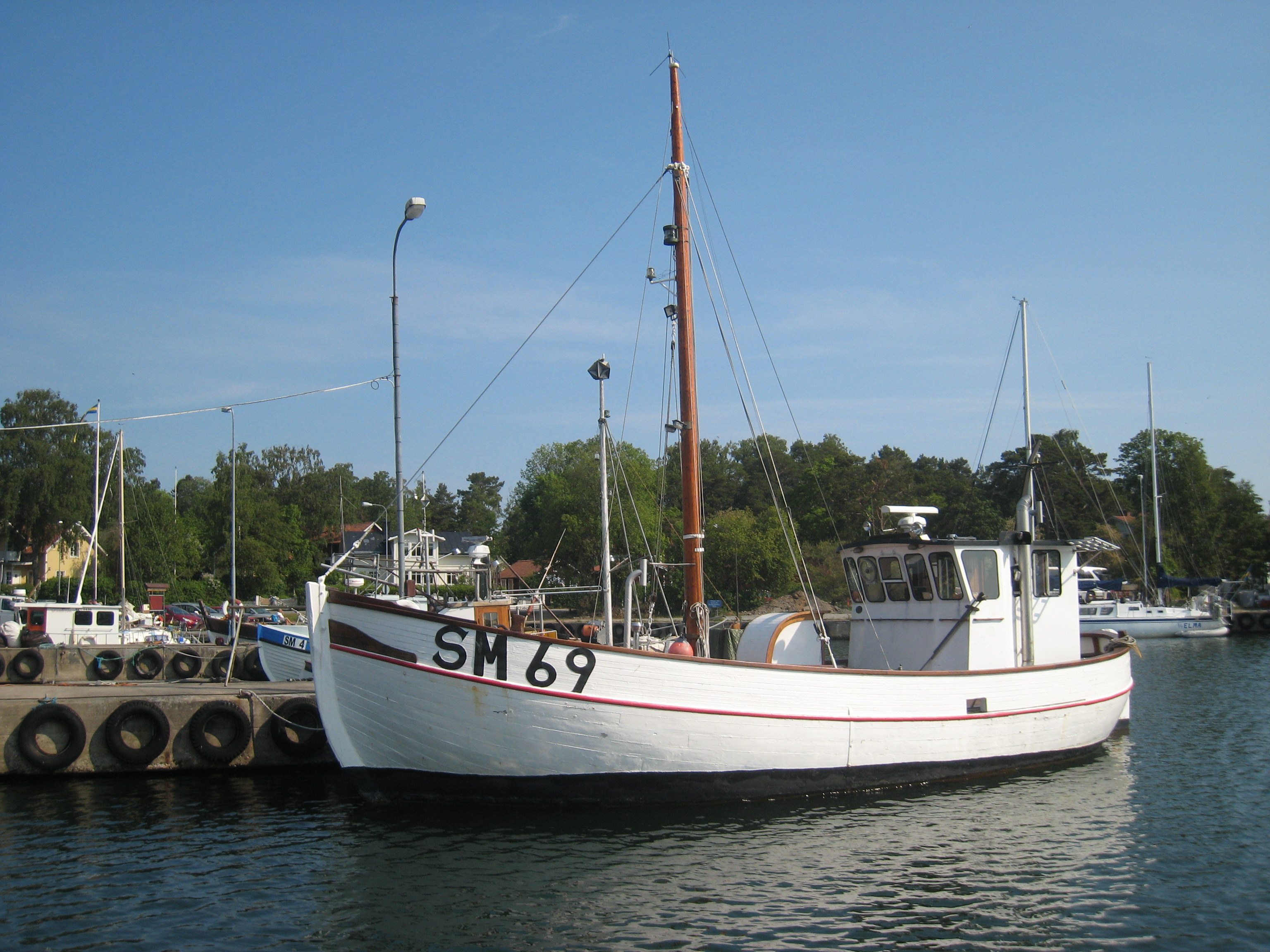 Fishing vessel in the harbourof Grisslehamn, Norrtälje Municipality